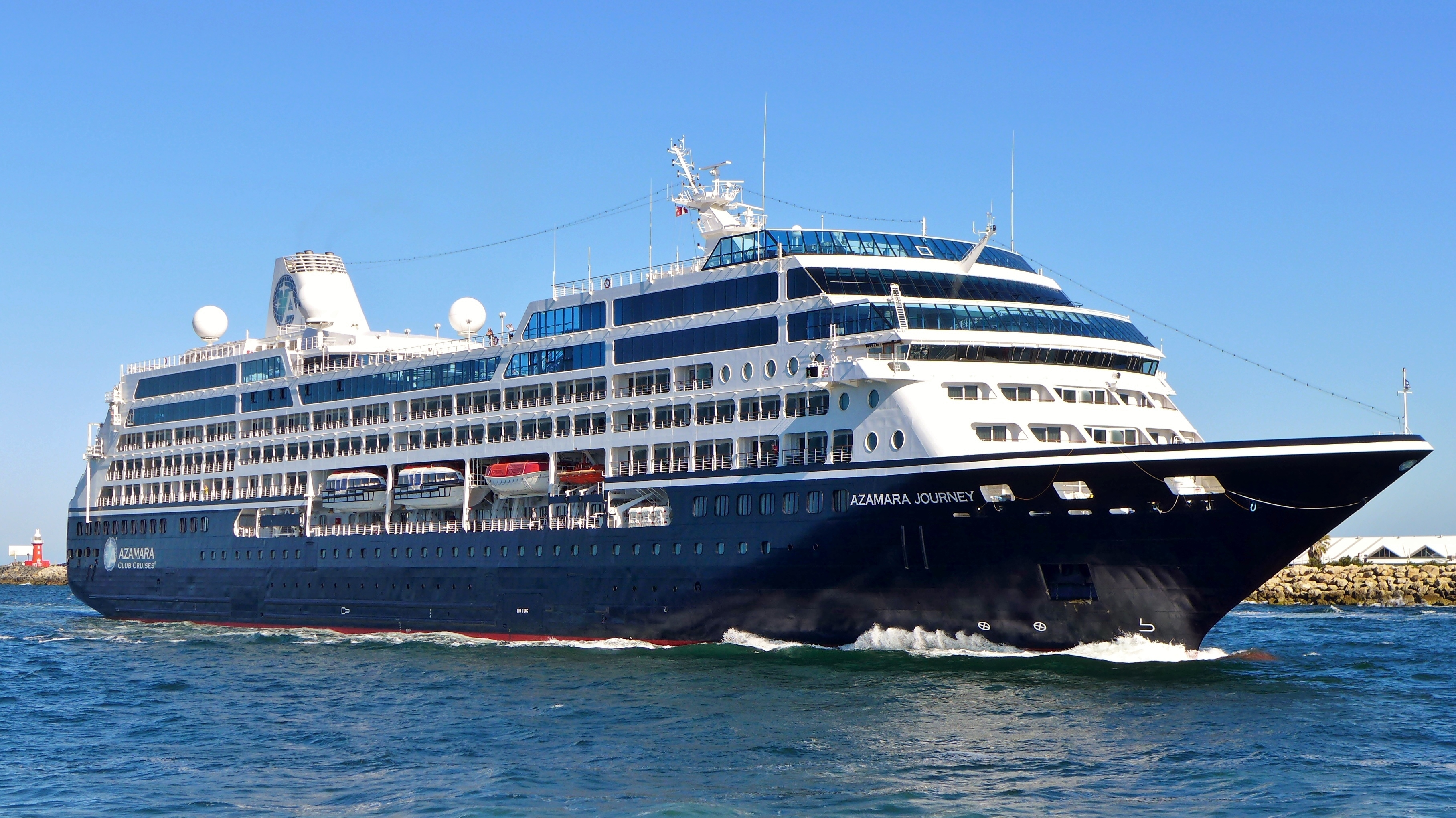 Cruise ship Azamara Journey entering the inner harbour of the Port of Fremantle, Western Australia, on a cruise from Bali to Sydney